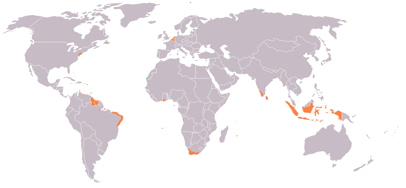 Dutch empire